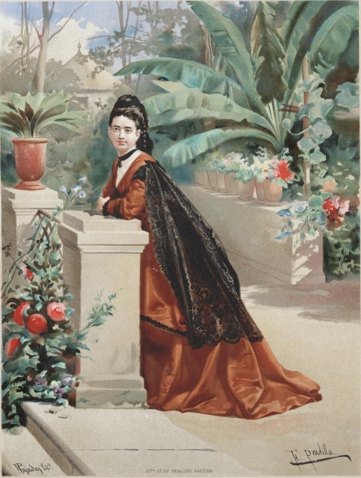 Woman from Montevideo, 1870s. Illustration in Las mujeres españolas, portuguesas y americanas… ("Spanish, Portuguese, and American Women…", published in Madrid, Havana, and Buenos Aires in 1872–1873 and 1876).